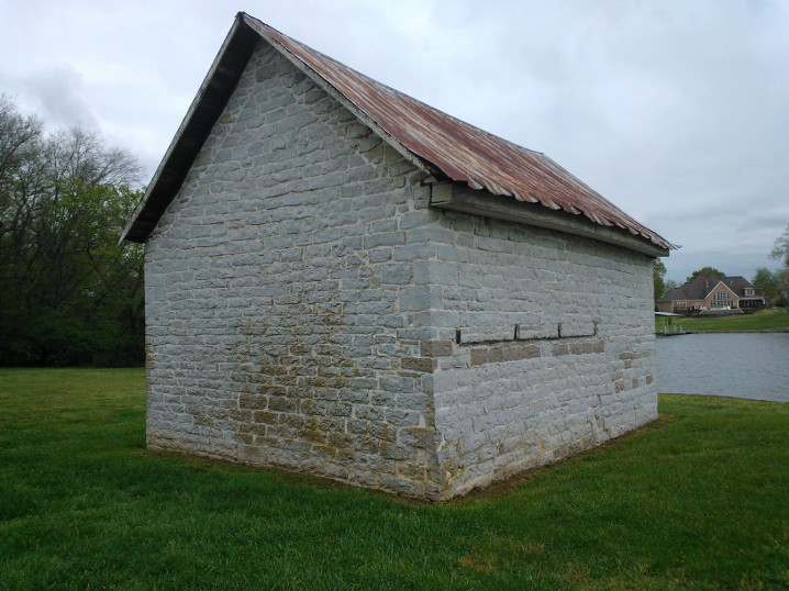 The smokehouse of Rock Castle, located near Hendersonville, Tennessee, USA.